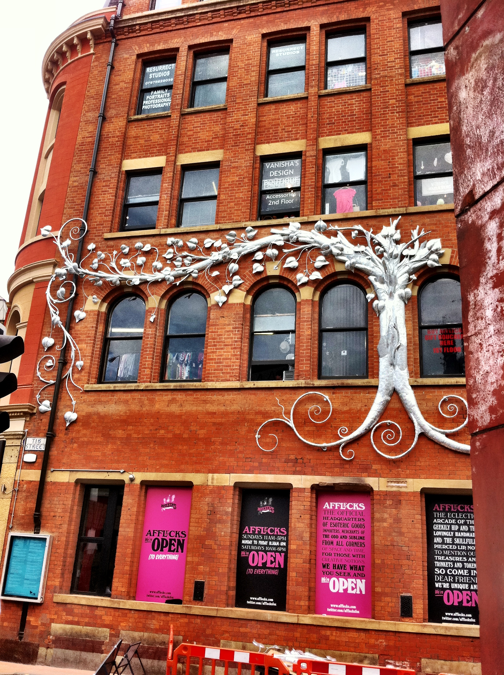 This is a photo of a new art installation on the side of the Afflecks Building in Manchester, England.